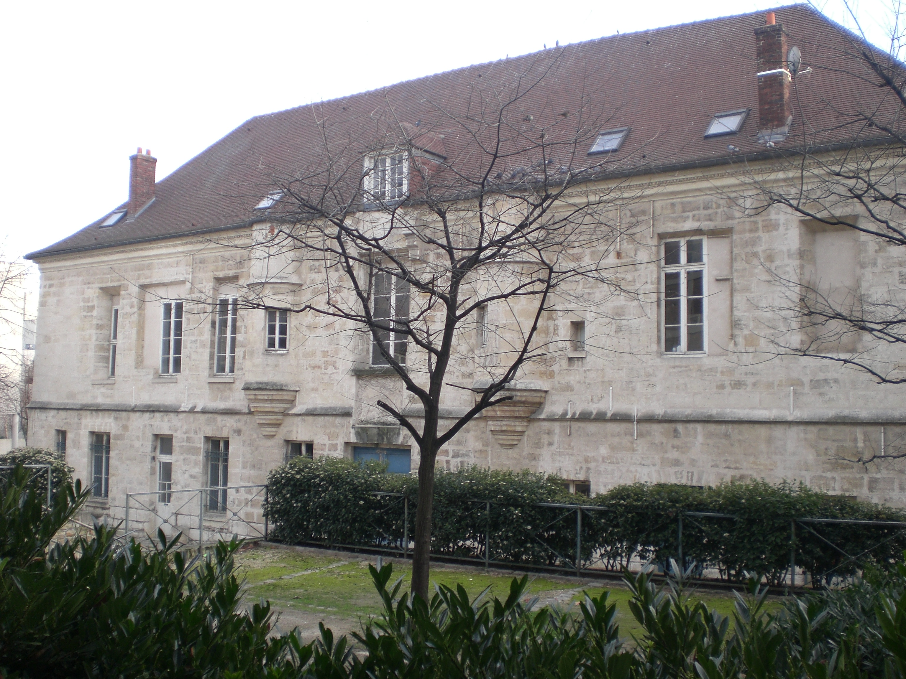 Arcueil, France Maison des Gardes vue de dos (pas assez de recul possible pour prendre la photo de face)